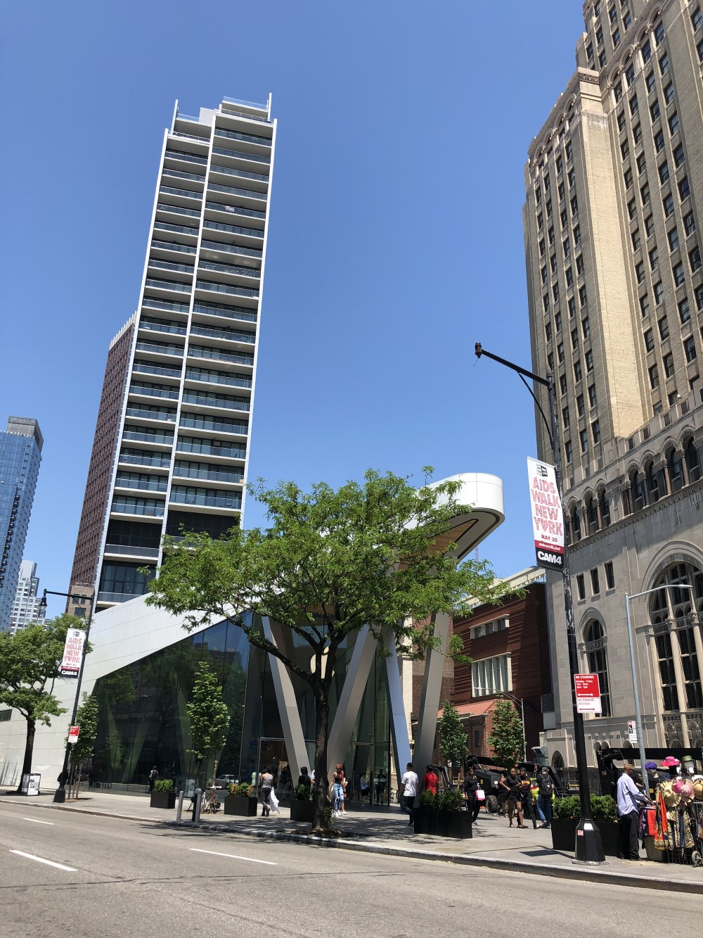 Boerum Hill - Flatbush Av & Atlantic Av, Brooklyn, NY 11217, USA